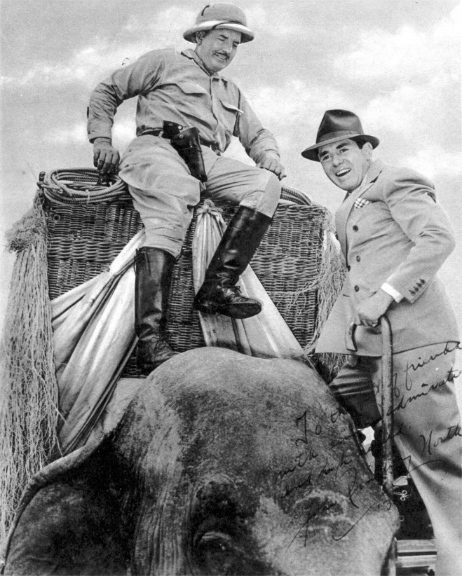 This photo was published in ALL IN A LIFETIME, Buck's autobiography. The publisher Robert M. McBride went bankrupt in 1948 and the copyright on ALL IN A LIFETIME (1941) was never renewed.